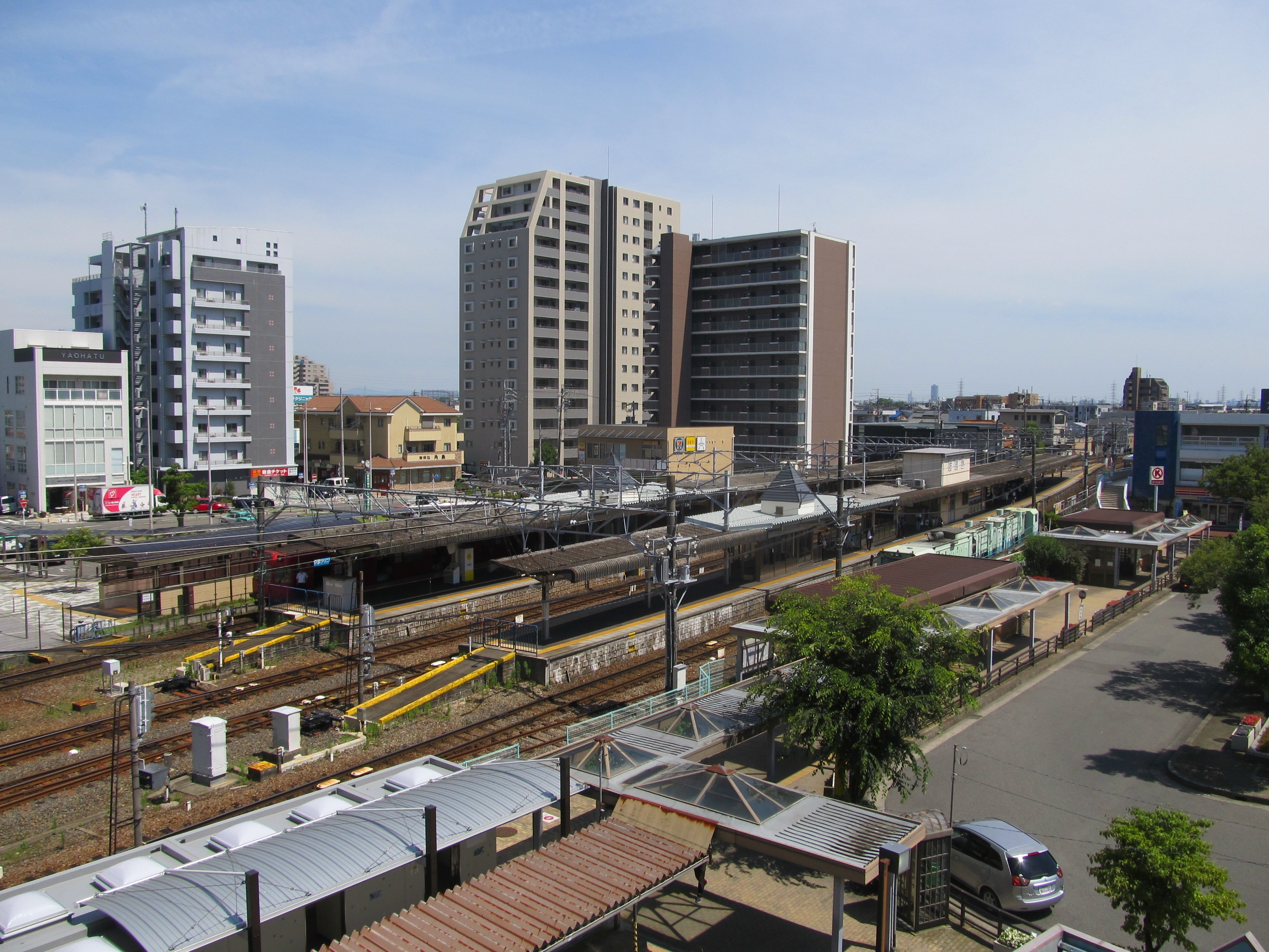 Nagoya Railroad Inuyama Line Iwakura Station